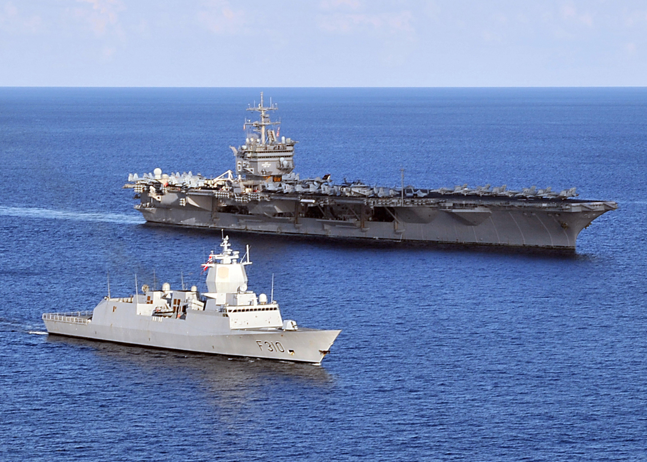 ATLANTIC OCEAN - The aircraft carrier USS Enterprise (CVN 65) and the Norwegian navy frigate HNoMS Nansen (F 310) are underway in the Atlantic Ocean as part of a formation exercise during a Composite Training Unit Exercise for Enterprise Carrier Strike Group.